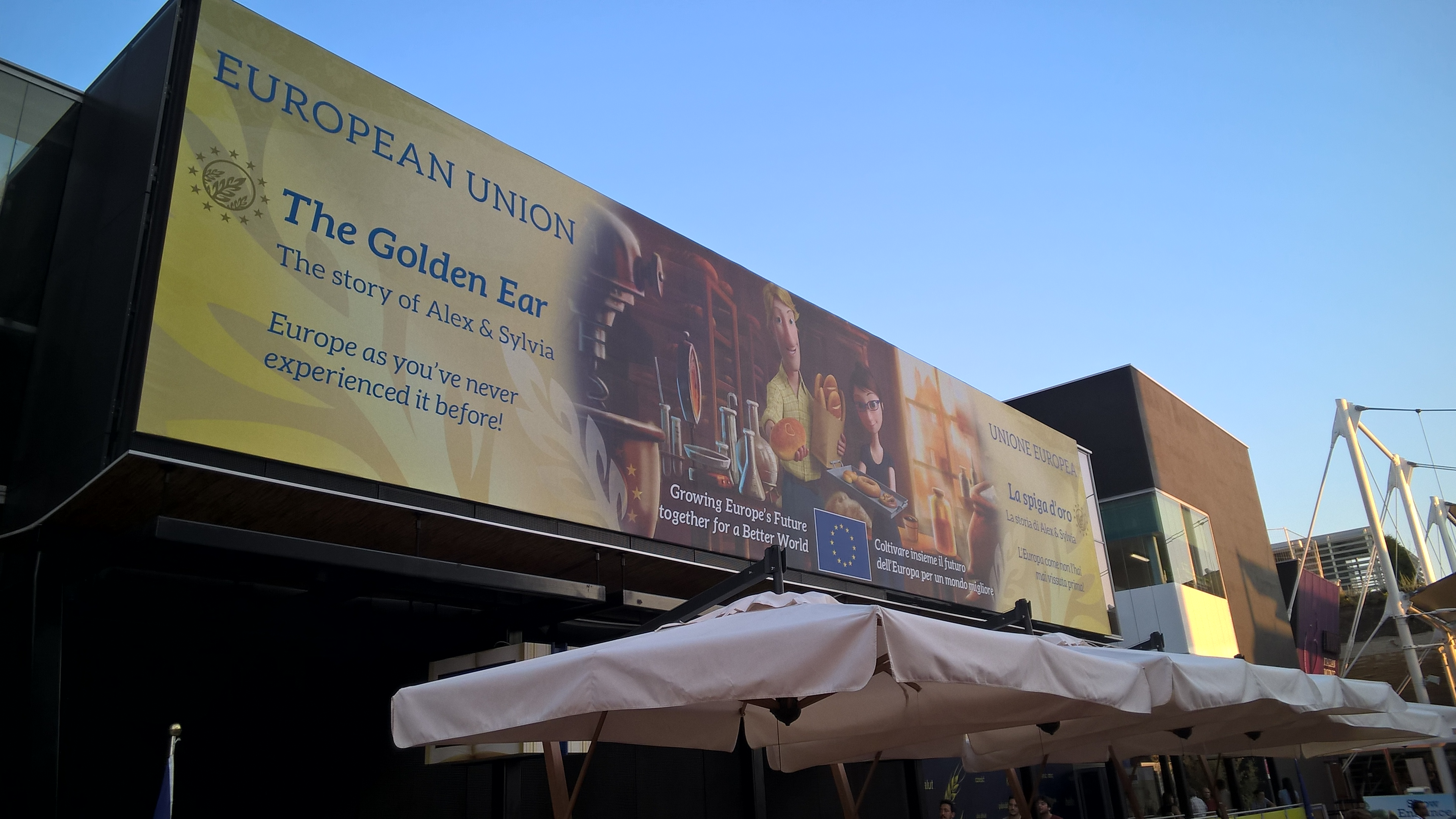 EU Pavilion at Expo 2015 Milano